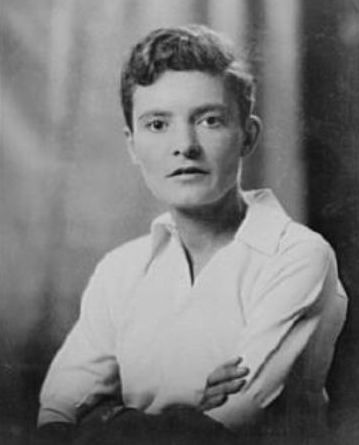 Arnold Genthe (1869-1942)/LOC agc.7a10921. Alice DeLamar, 1927